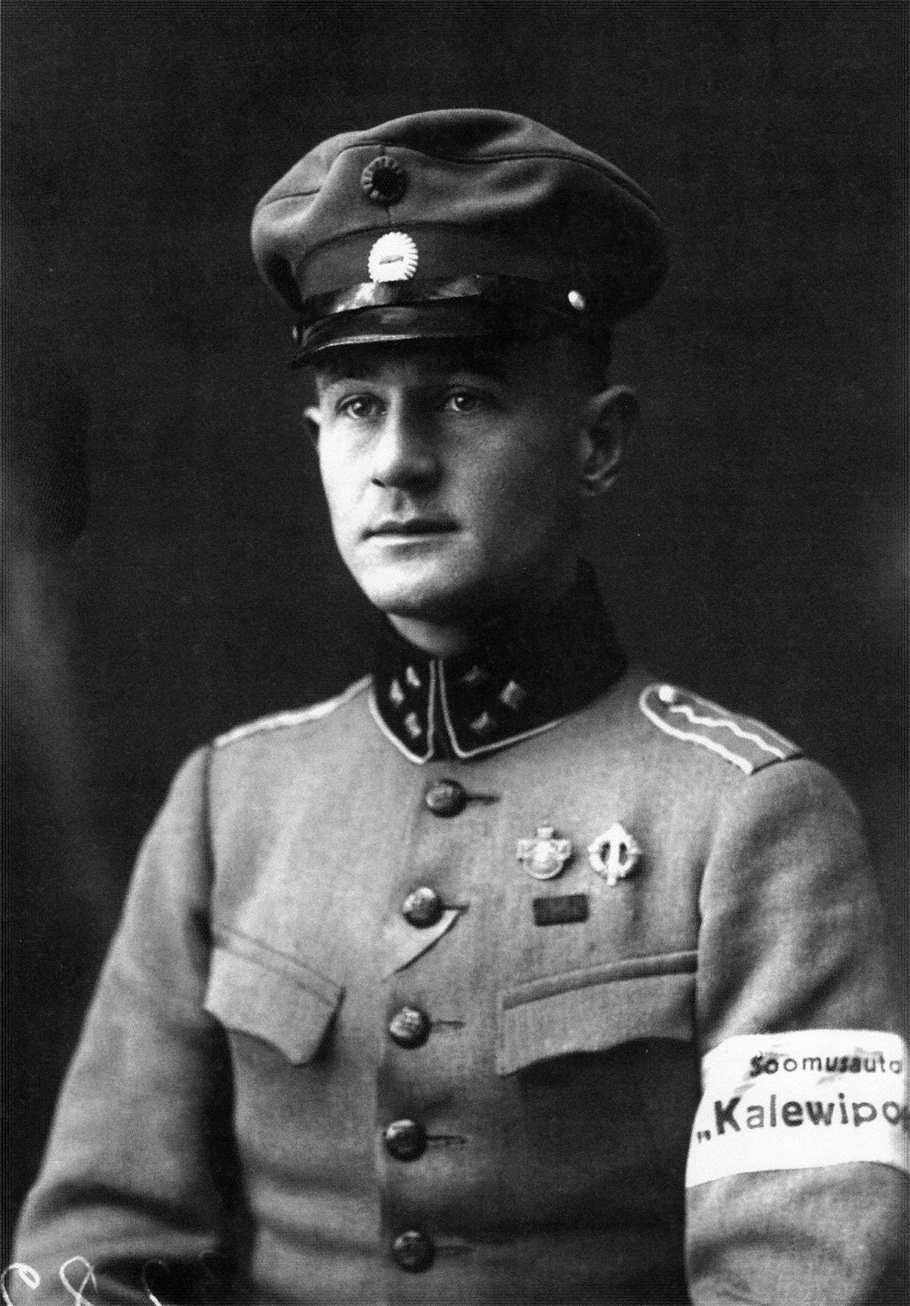 Swedish volunteer Captain Einar Paul Albert Muni Lundborg (1896–1931). Commander of armored car "Kalevipoeg" of the Estonian army.